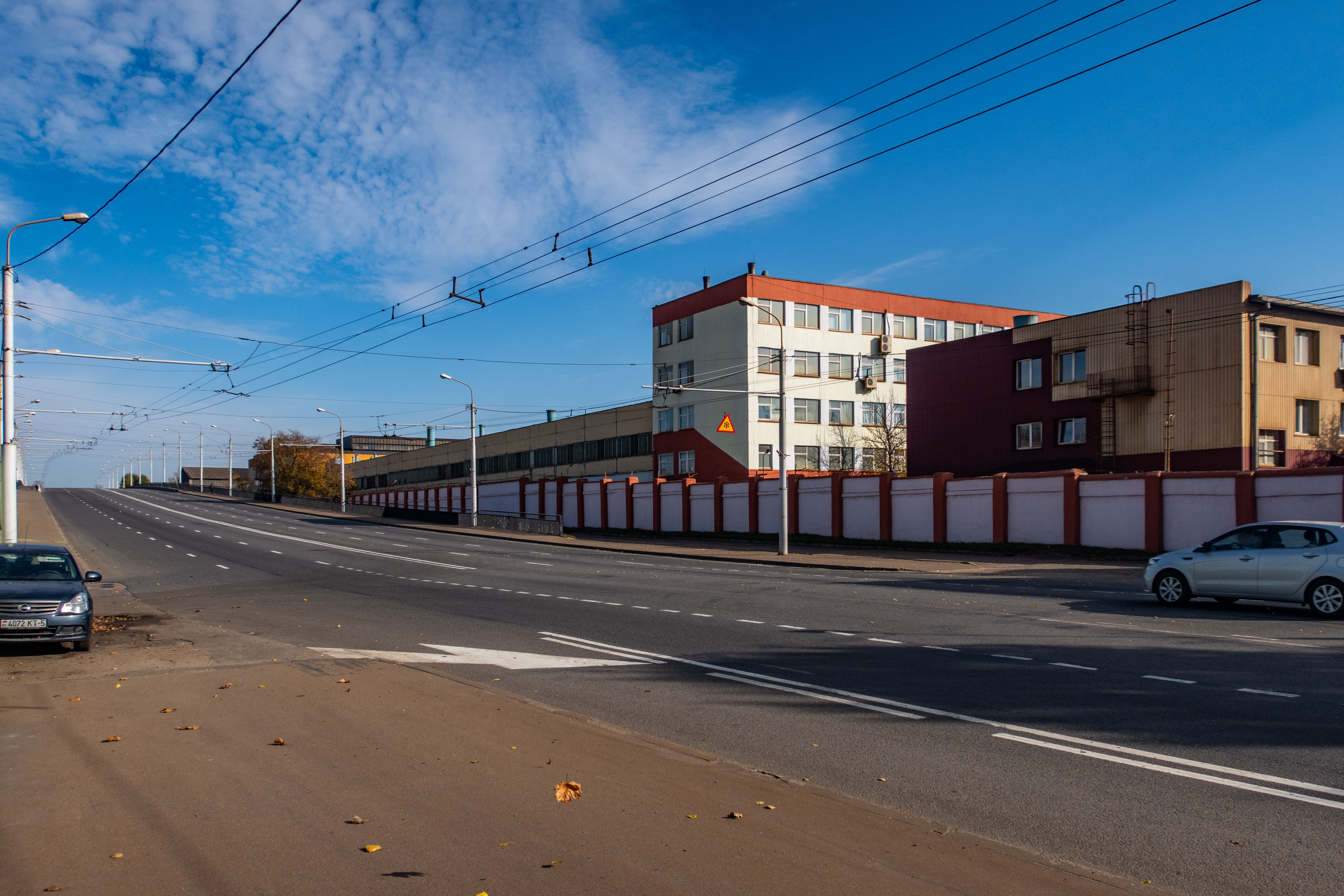 Vaŭpšasava street. Minsk, Belarus